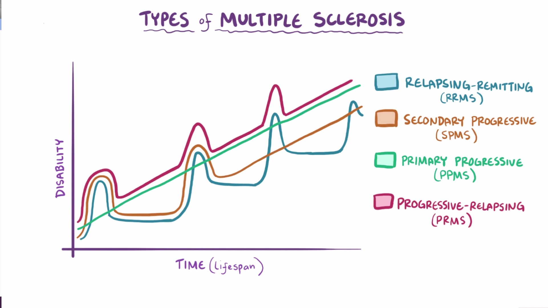 Graph of the evolution of different forms of MS comparing the degree of disability with time. With in order: Recurrent-remitting form (RRMS) Secondary progressive form (SPMS) Primary progressive form (PPMS) Recurrent-relapsing form (PRMS)